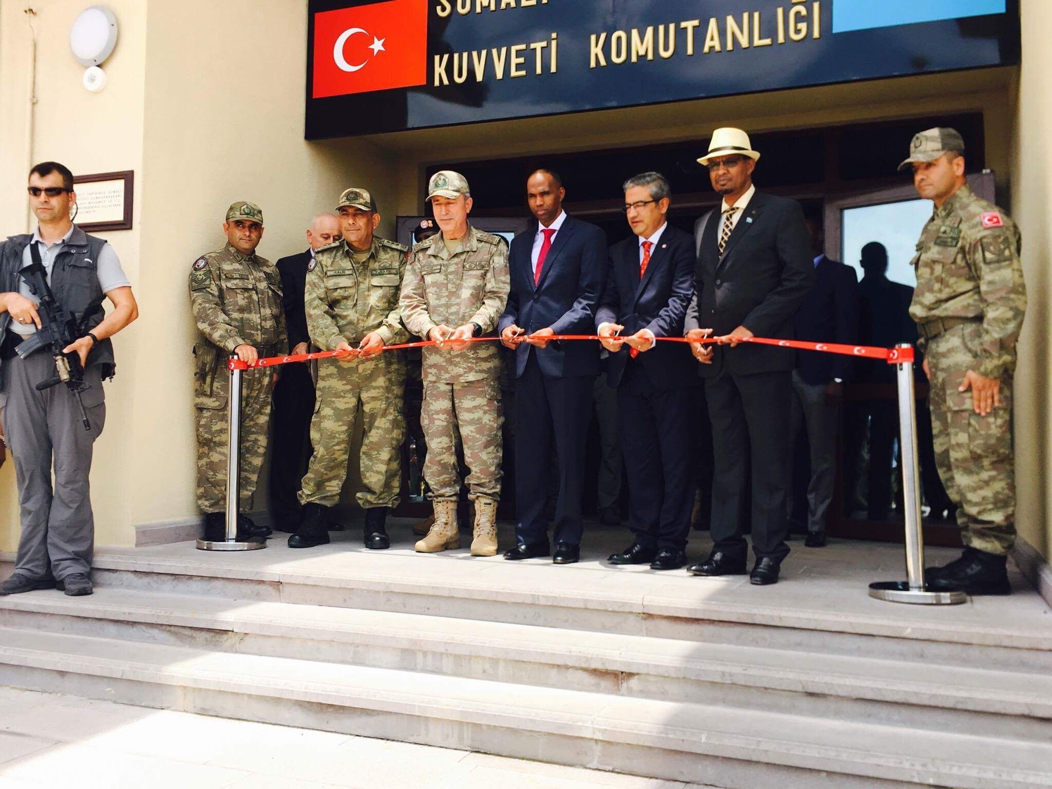 Turkey Opens Largest Foreign Military Base in Mogadishu